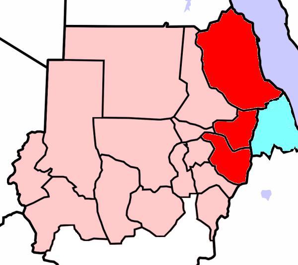 The three states in Sudan which constitute the stronghold of the Eastern Front